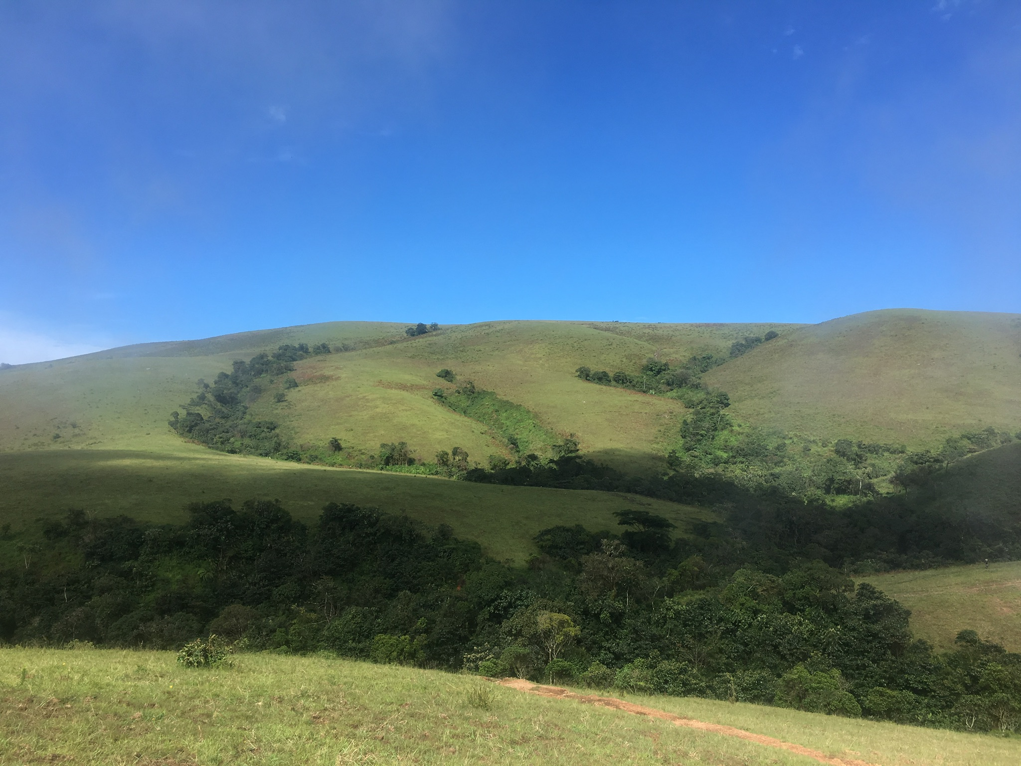 The Obudu Mountain is lush in vegetation with an abundance of widelife ranging from Gorillas to Wildcats all in sync in their rainforest habitat.